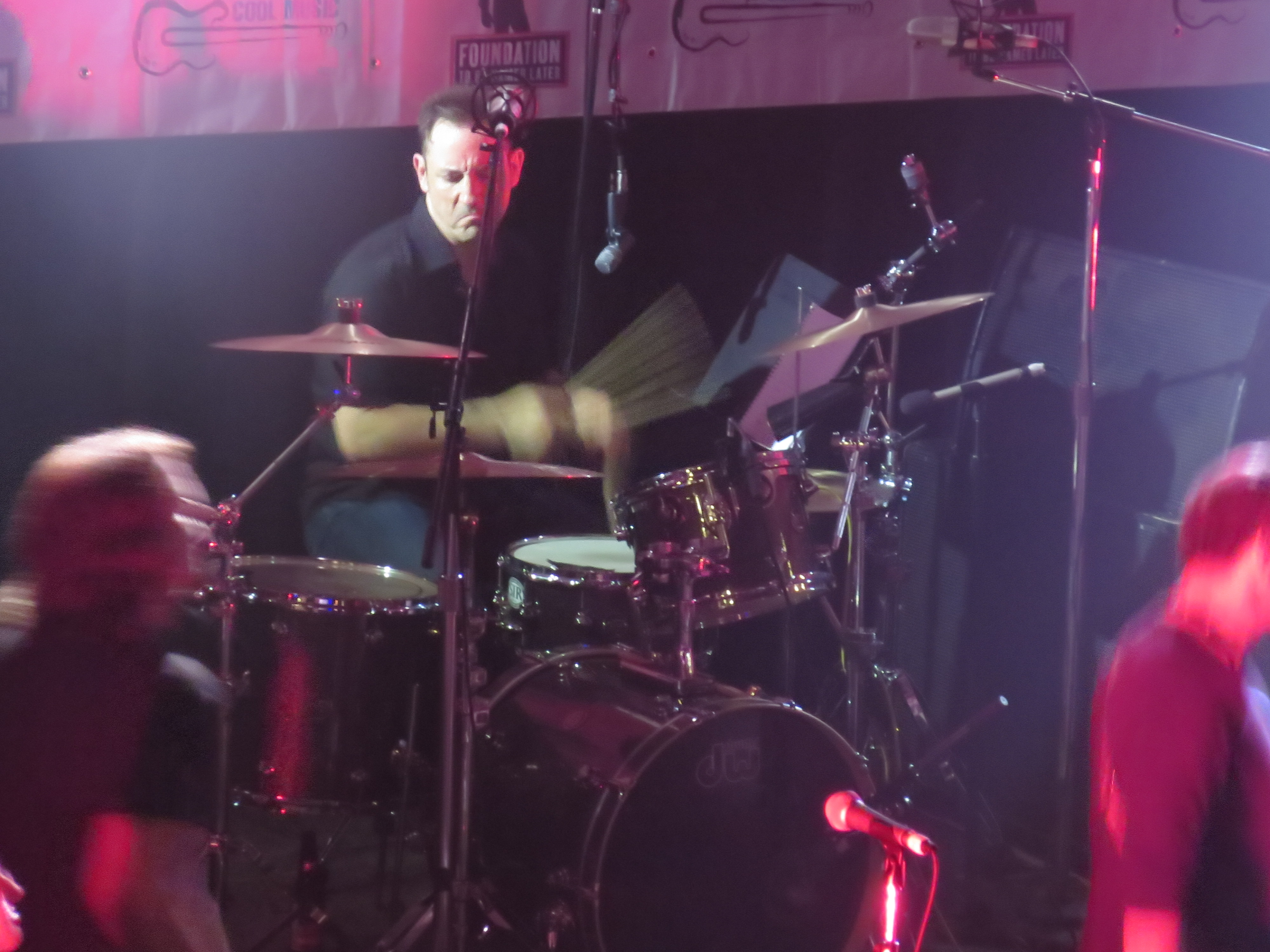 Hot Stove Cool Music @ the Metro, Chicago 6/20/2014